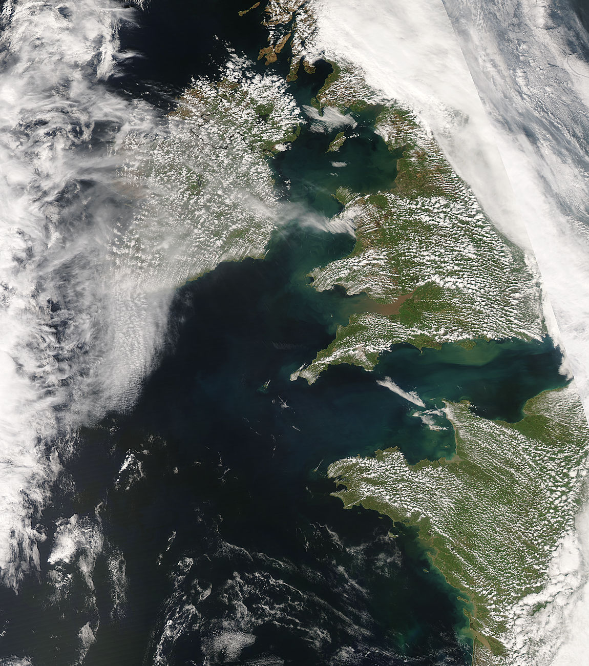 Cloud streets over Great Britain 23 April 2008